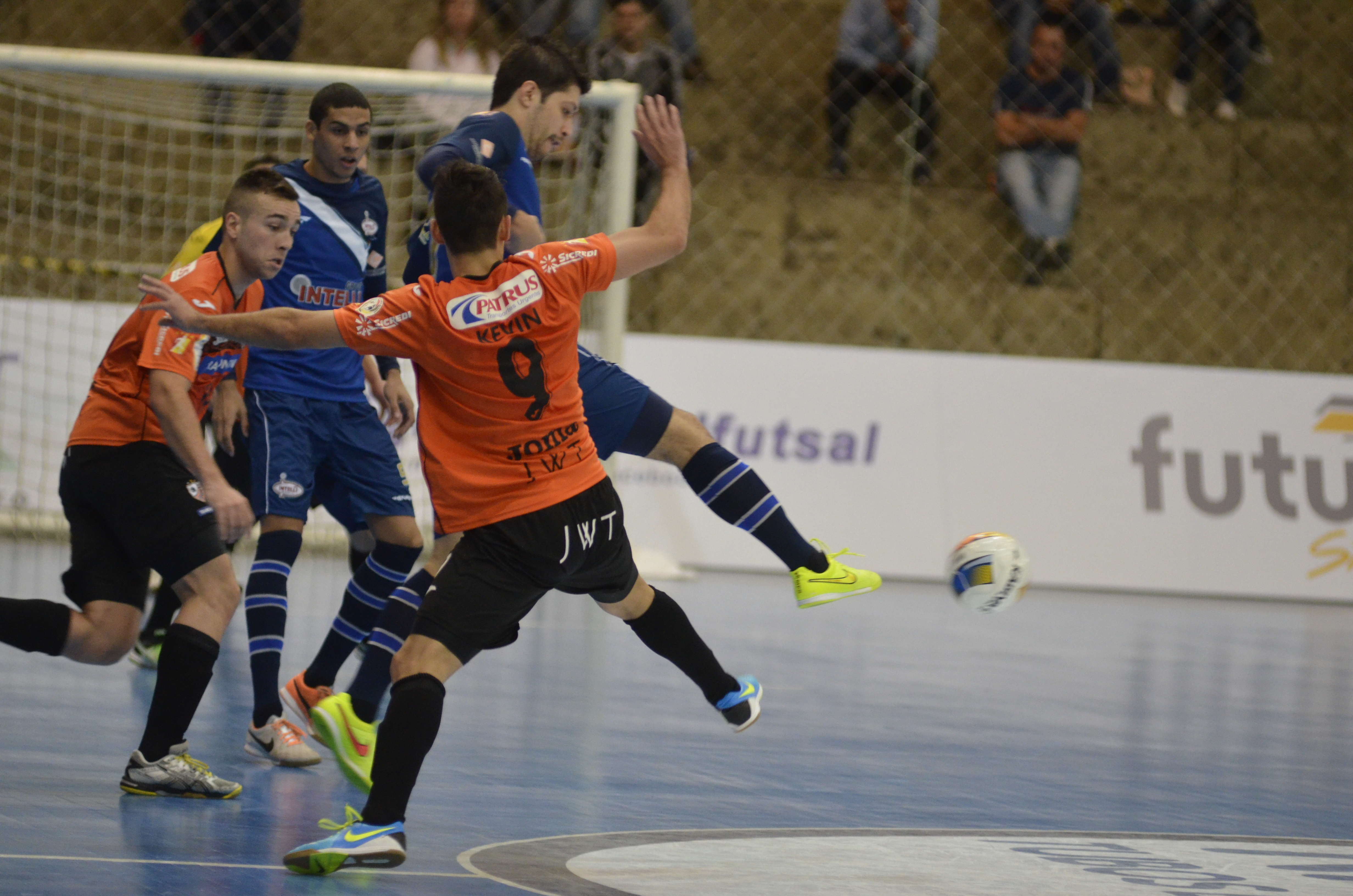 RS - FUTSAL/LIGA NACIONAL DE FUTSAL 2015 - ESPORTES - Lance da partida entre ACBF x Intelli disputada na tarde de sábado 05/05, no Centro Municipal de Eventos Sérgio Luiz Guerra, valida pela Liga Nacional de Futsal 2015. FOTO: GUILHERME KALSING